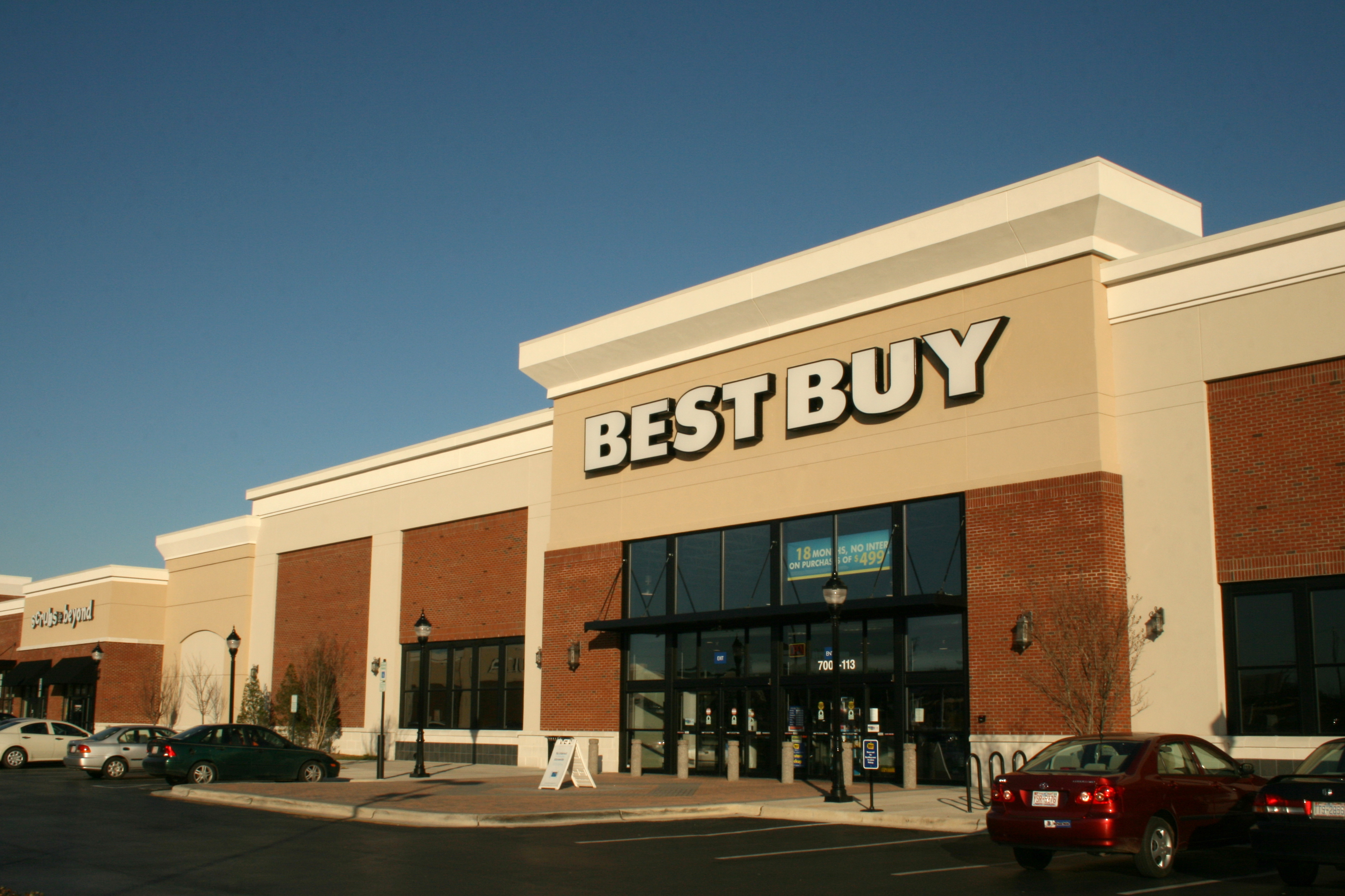 Best Buy at the Renaissance Center, across the street from The Streets at Southpoint in Durham, North Carolina.